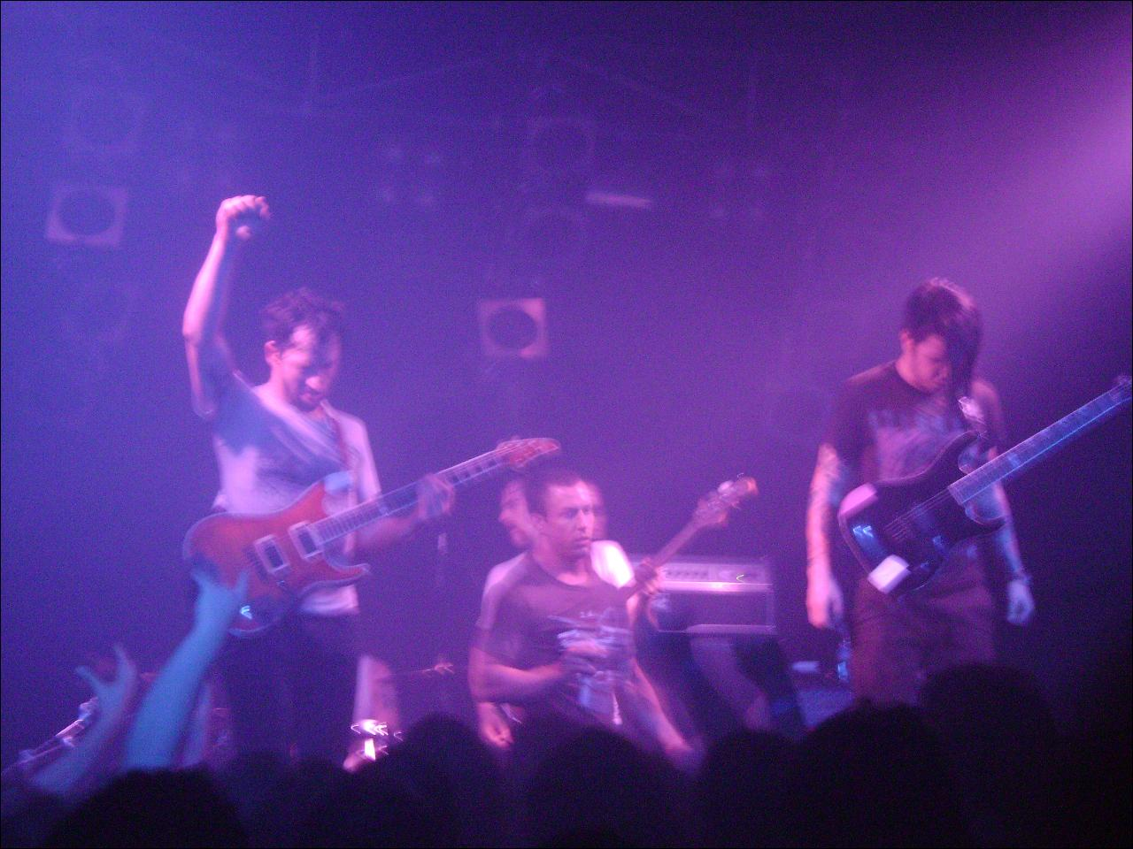 Dillinger Escape Plan 21-05-08